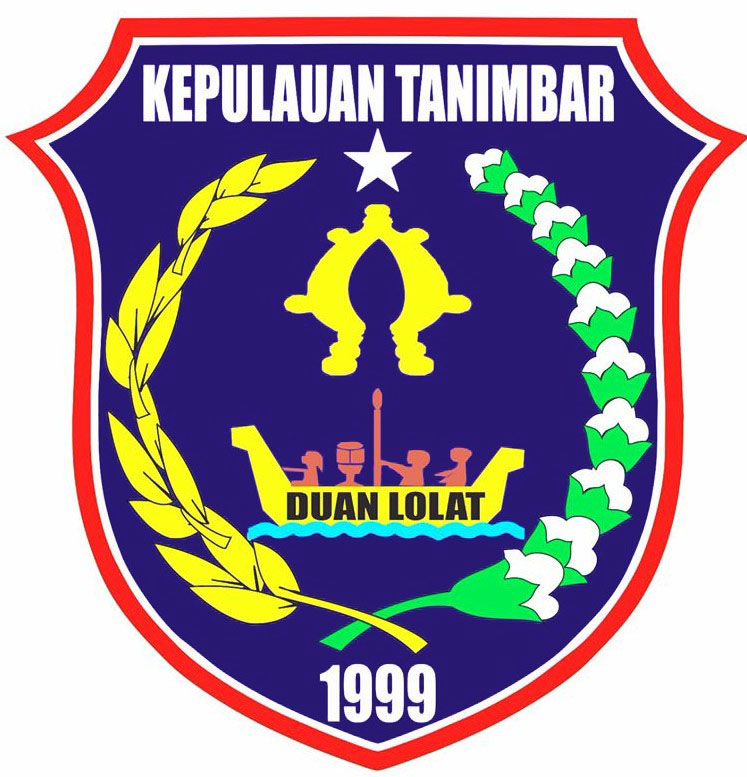 Coat of arms of Western Southeast Maluku Regency